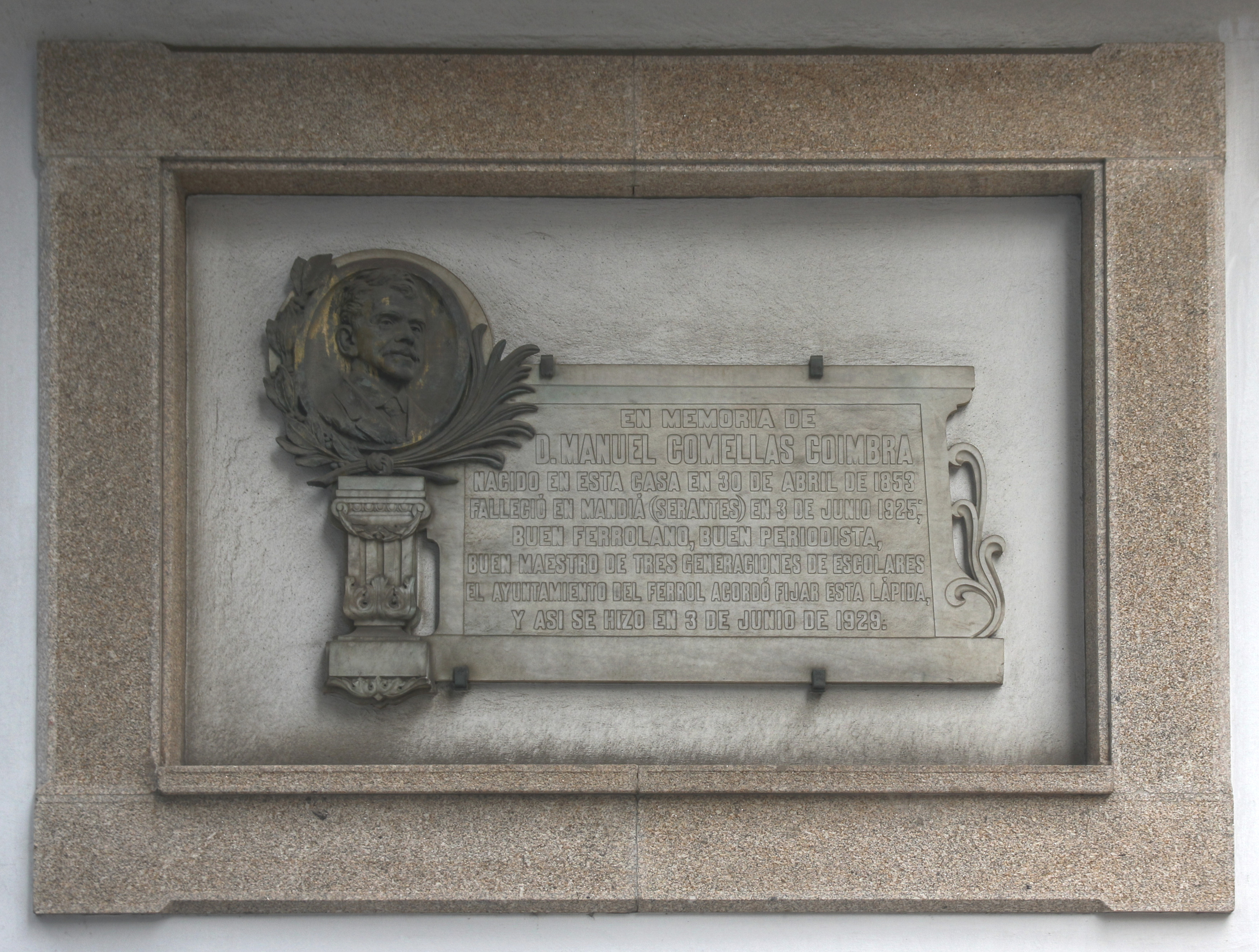 Plaque dedicated to Manuel Coimbra Comellas in the Sanchez Barcaiztegui Street in Ferrol, Galicia, Spain.